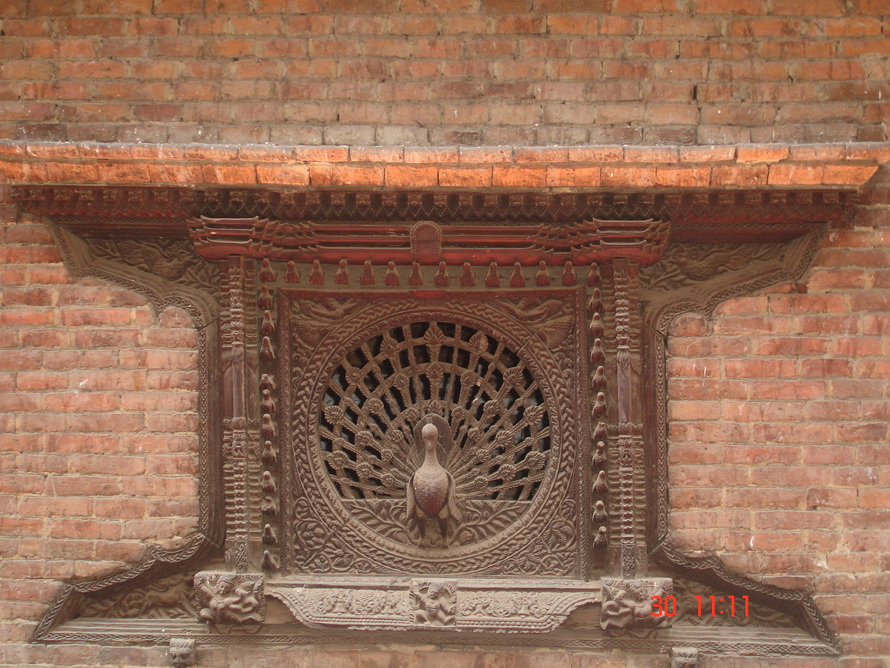 c@ santoshkc, Paris